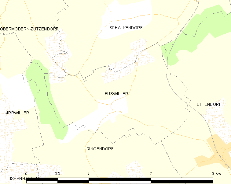 Map of French municipality